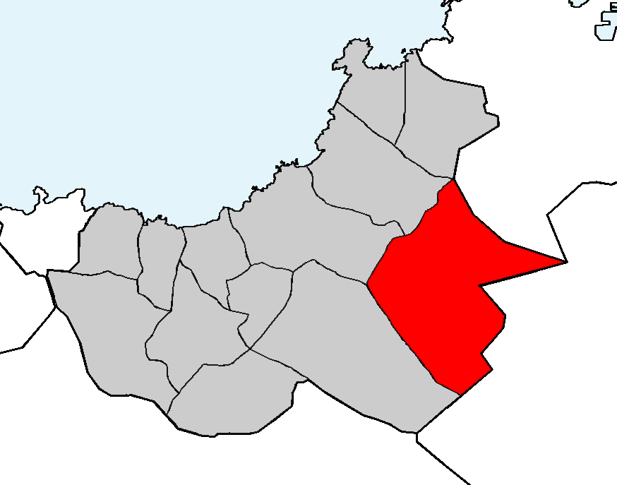 Location of the parish of Morás in the municipality of Arteixo (Galicia, Spain)